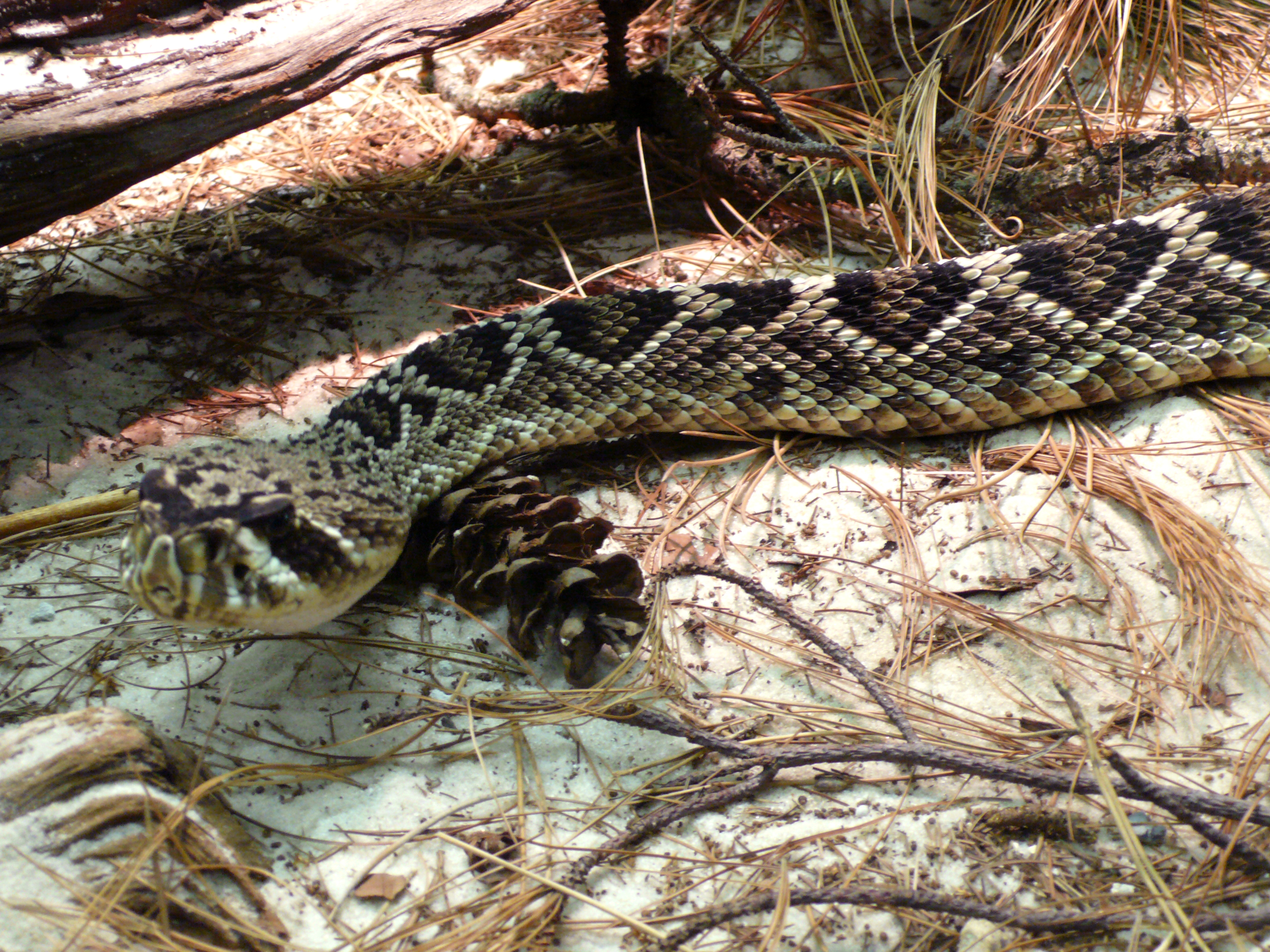 Eastern Diamondback Rattlesnake (Crotalus adamanteus)